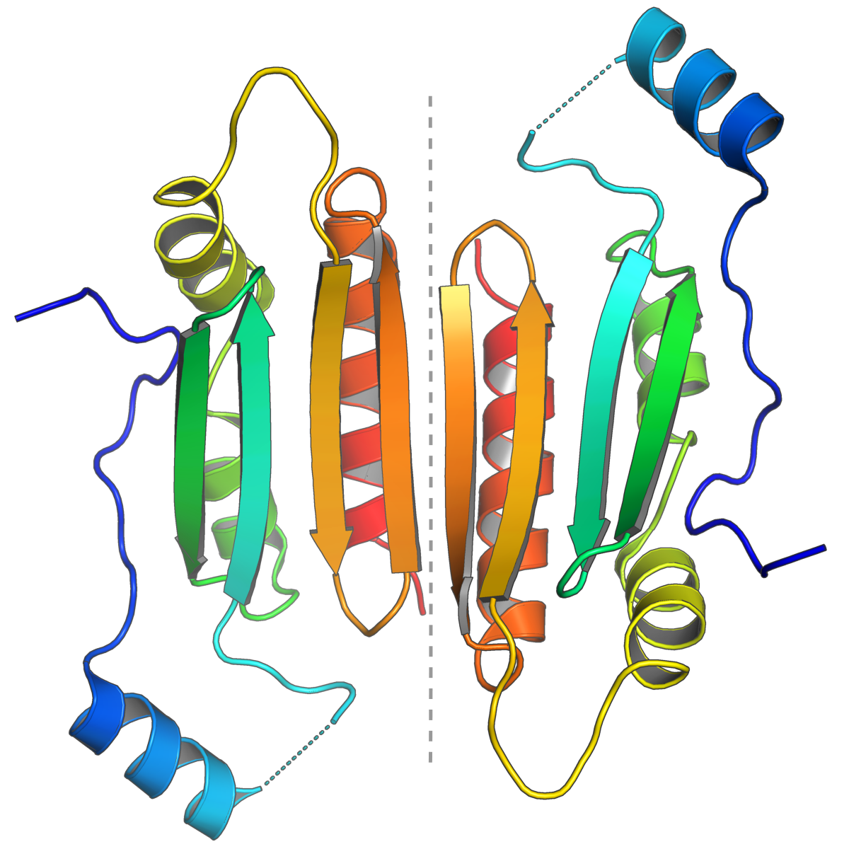 The RNA silencing suppressor p19 from the tomato bushy stunt virus, rendered from PDB ID 1R9F. The protein, which forms a functional dimer, is shown colored from blue at the N-terminus to red at the C-terminus; the gray dotted line indicates the dimerization interface. The interaction surface formed from the resulting beta sheet is positively charged and binds double-stranded RNAs of 19 to 21 base pairs. Plants use RNA silencing as a defense mechanism against viruses; the p19 protein serves as a viral counter-defense that specifically binds siRNAs and suppresses the silencing machinery. Keqiong Ye, Lucy Malinina & Dinshaw J. Patel. Recognition of small interfering RNA by a viral suppressor of RNA silencing. Nature 426, 874-878 (18 December 2003).